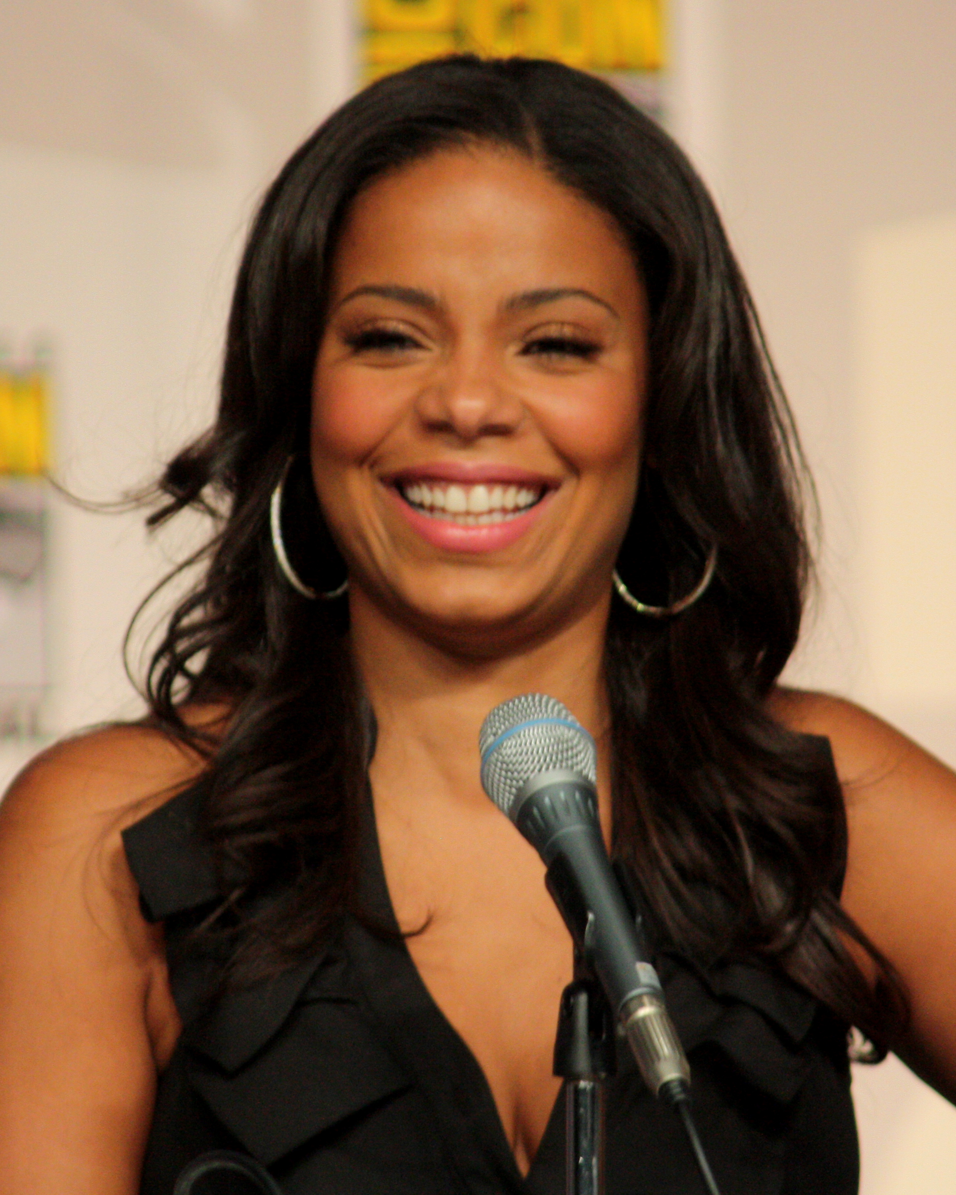 Sanaa Lathan at the 2009 Comic Con in San Diego.